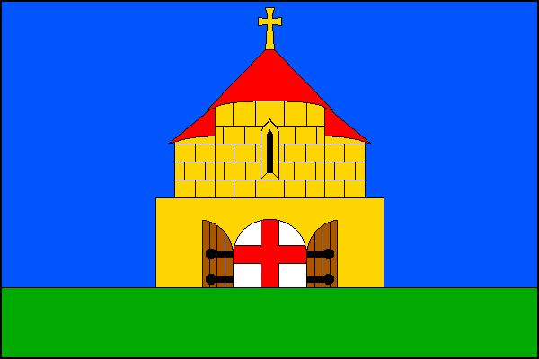 Municipal flag of Hradešín village, Kolín District, Czech Republic.